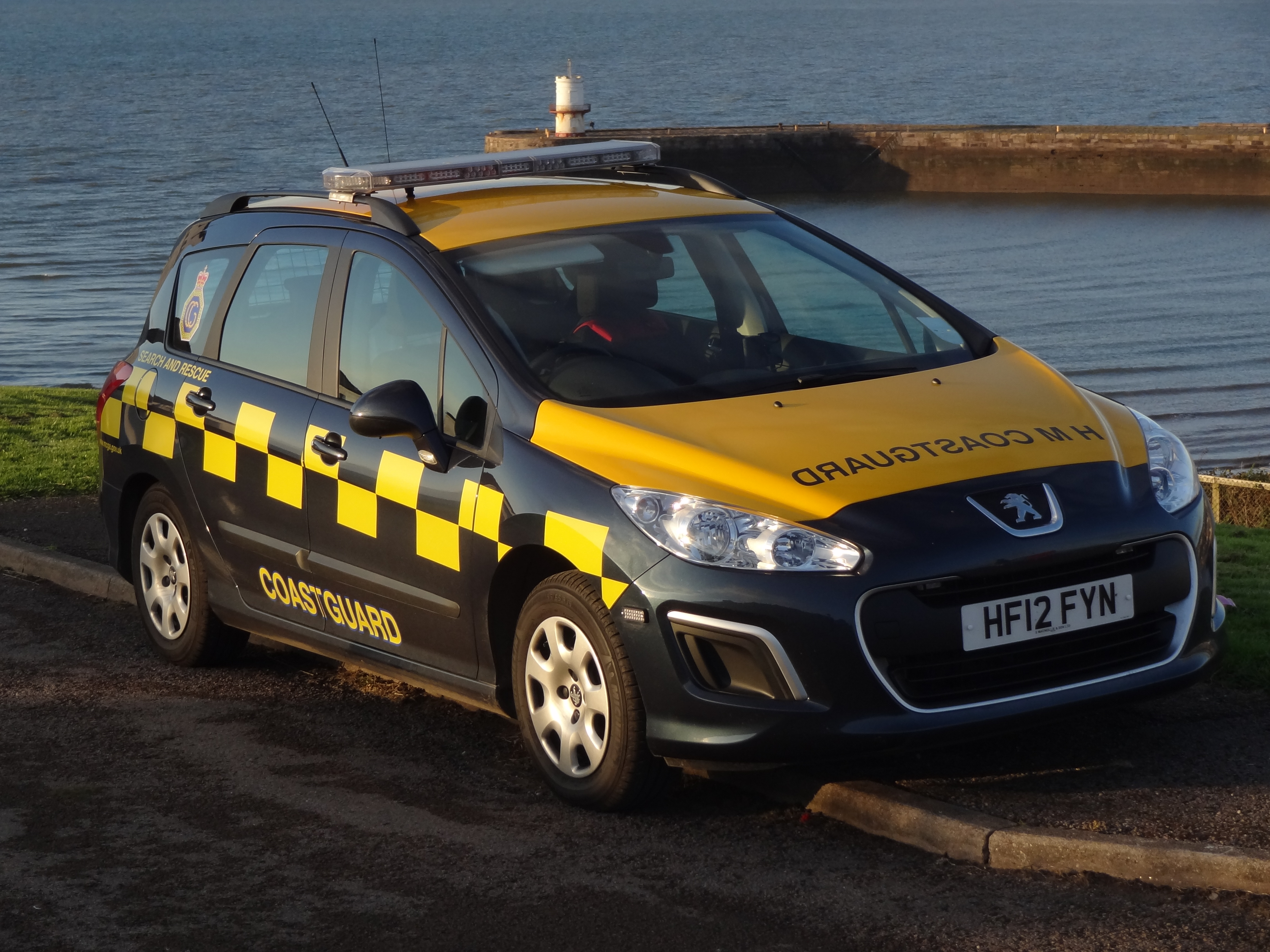 HM Coastguard car